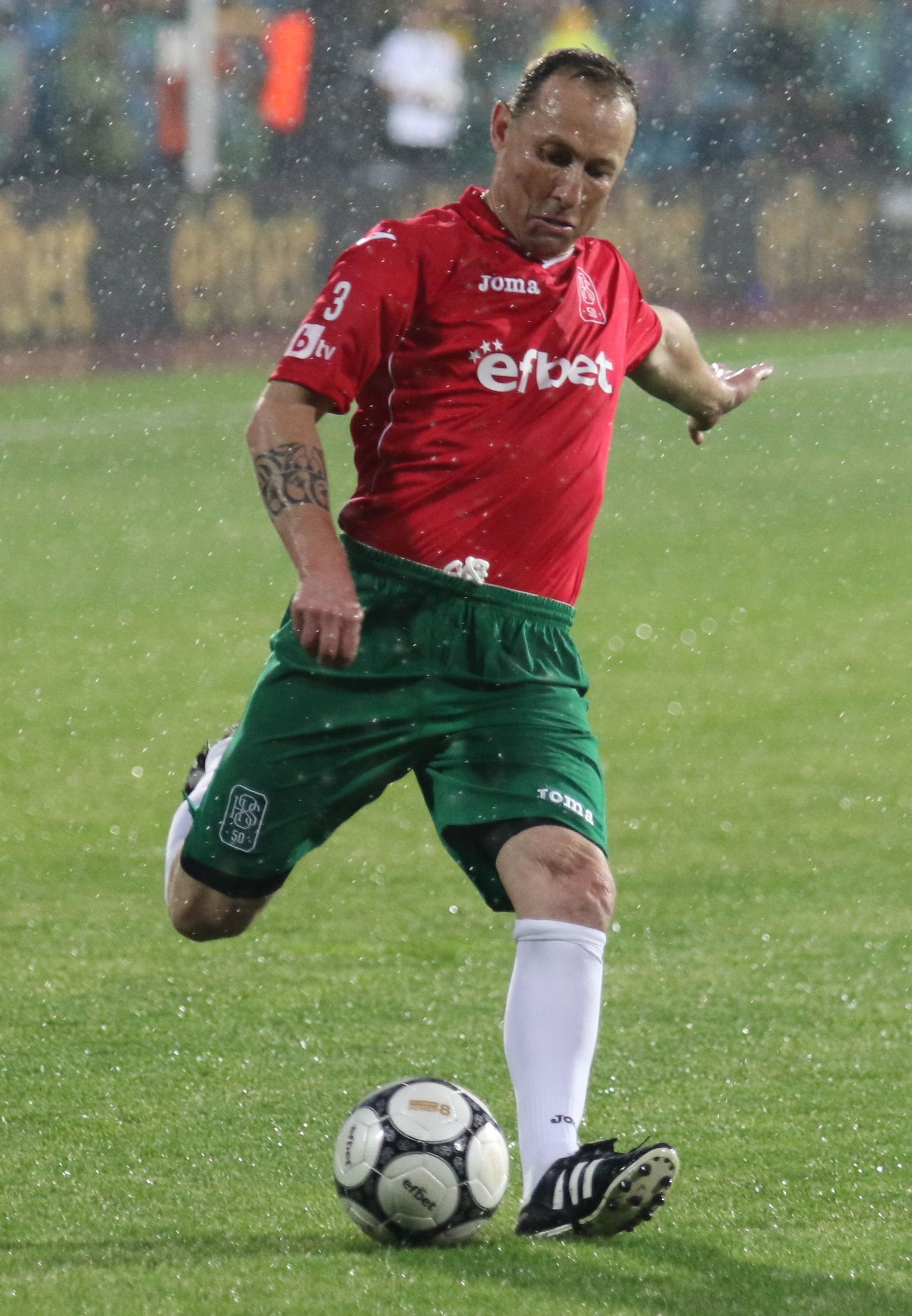 Jean-Pierre Papin- former French professional football player, who played as a forward, and who was named the European Footballer of the Year in 1991.